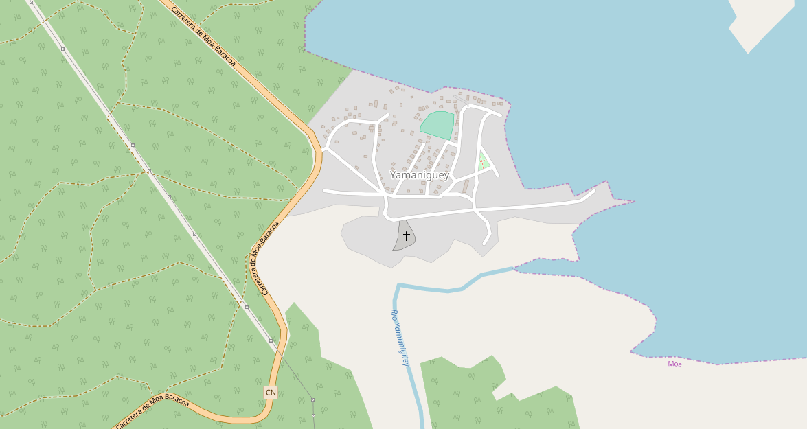 This map may be incomplete, and may contain errors. Don't rely solely on it for navigation.